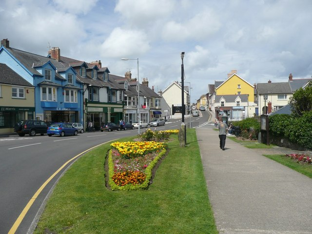 West Street, Fishguard / Abergwaun Big Brother is watching!